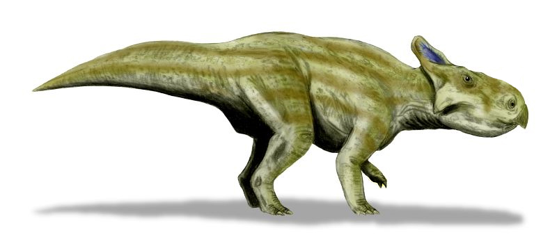 Montanoceratops cerorhynchus, a ceratopsian from the Late Cretaceous of North America, pencil drawing, digital coloring